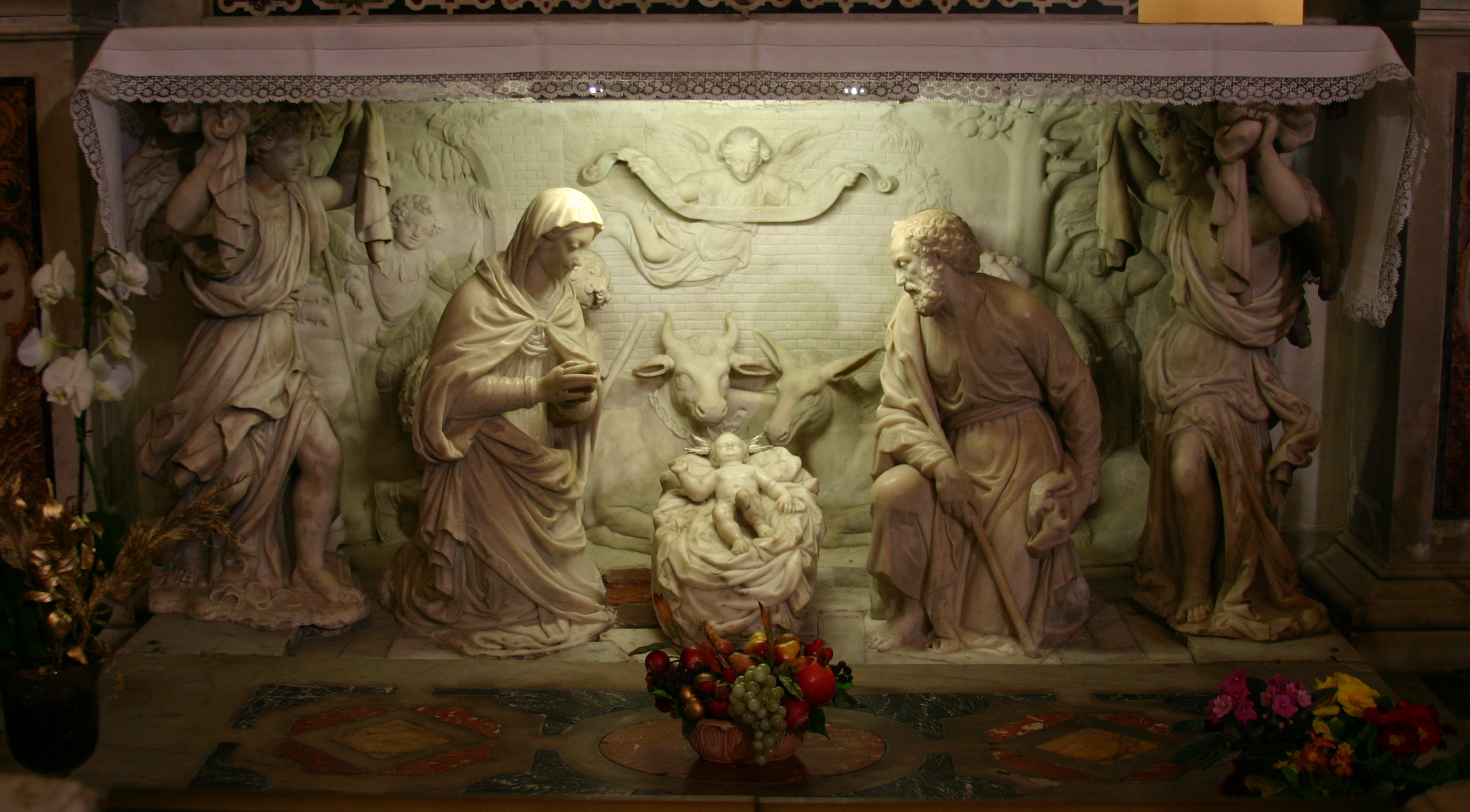 Chiesa del Gesù e dei Santi Ambrogio e Andrea